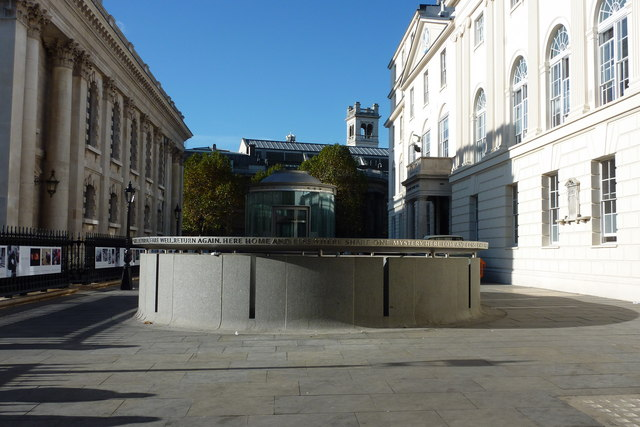 Church Place, by St Martin in the Fields church Part of the £36million restoration and refurbishment project. This structure, opening to part of the crypt entrance, has words by Andrew Motion inscribed around the perimeter. The entrance pavilion can be seen behind it. To the left of the picture is the church and Mark Edwards' photographic exhibition "Hard Rain", the words based on Bob Dylan's prophetic song "A Hard Rain's a Gonna Fall".